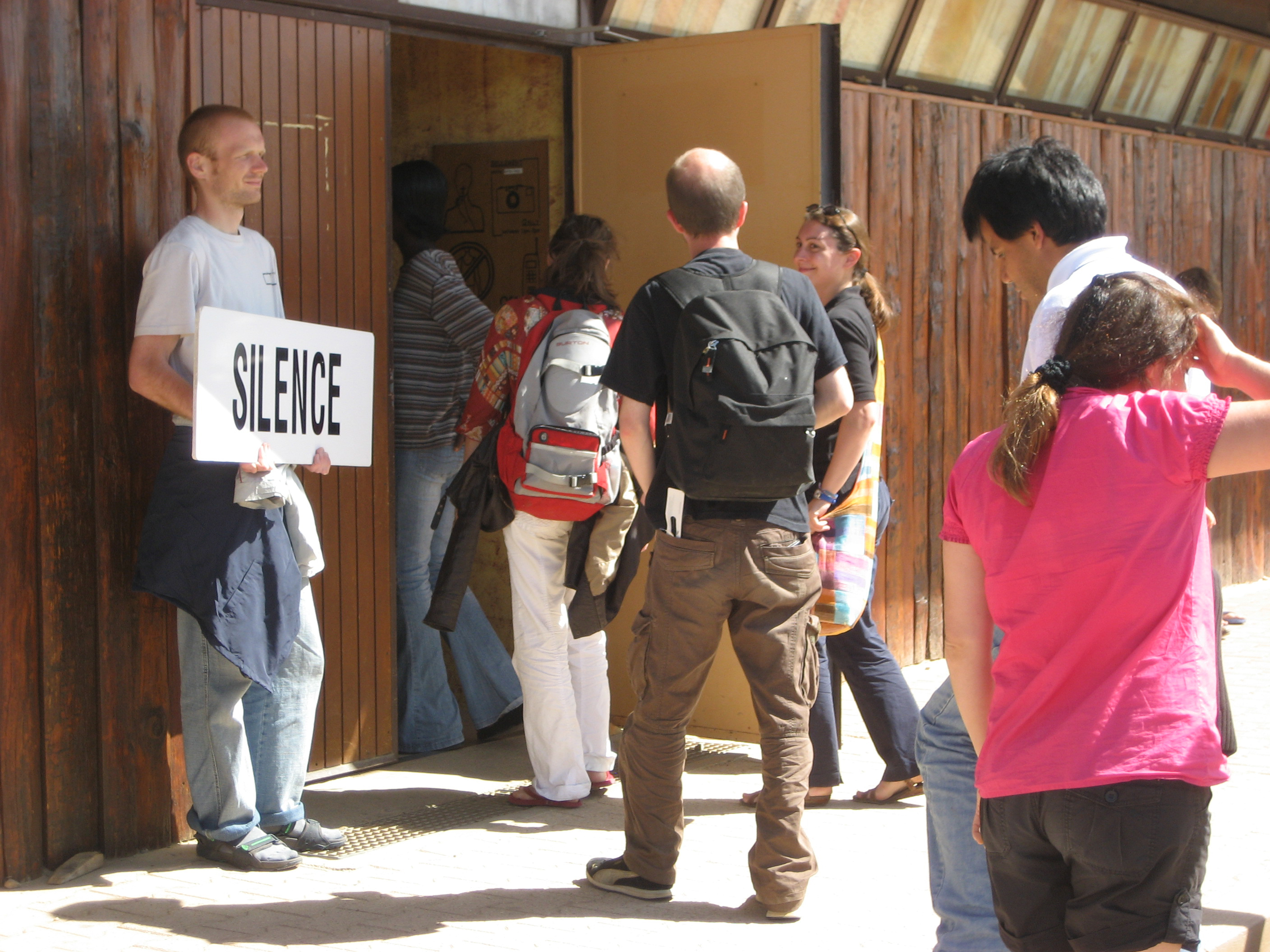 Nebeneingang in die Kirche